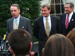 From left to right: United States Senator Chuck Grassley, Senator Max Baucus, and Representative E. Clay Shaw, Jr.